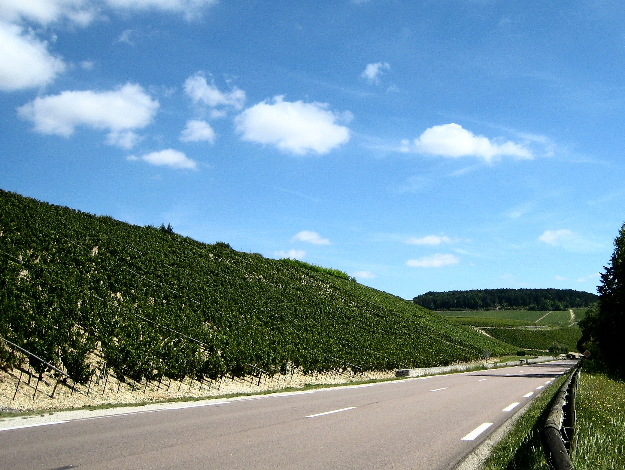 The Grand Cru vineyards of Bougros and Vaudésir on the D91 north of Chablis, Burgundy. Les Preuses is up the far hill, below the wood.